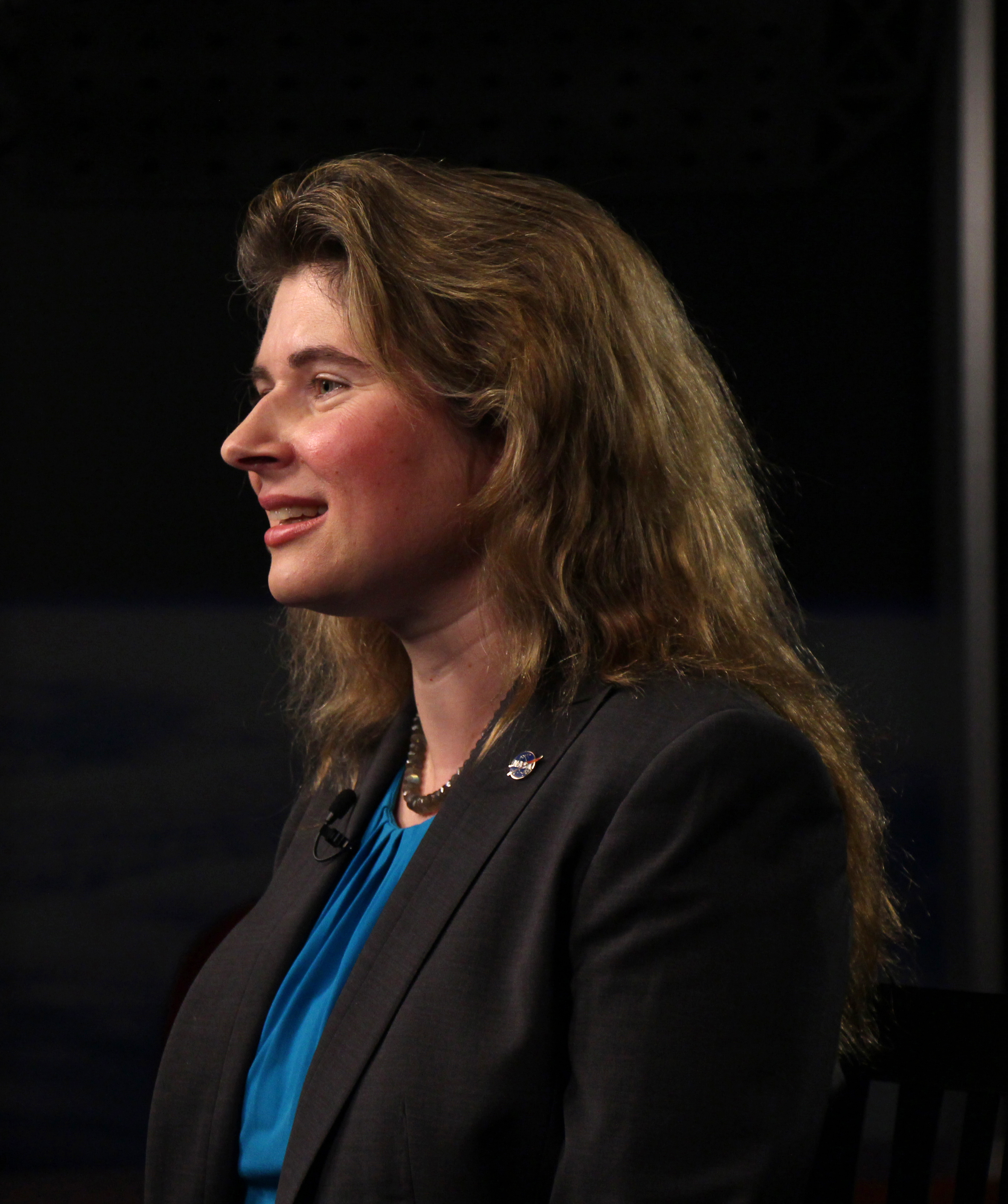 Doug Morton, Michelle Thaller, and Eric Brown de Colston conducted media interviews the morning before the launch of the Landsat Data Continuity Mission (LDCM), Monday Feb. 11, 2013 from the NASA Goddard's television studio.